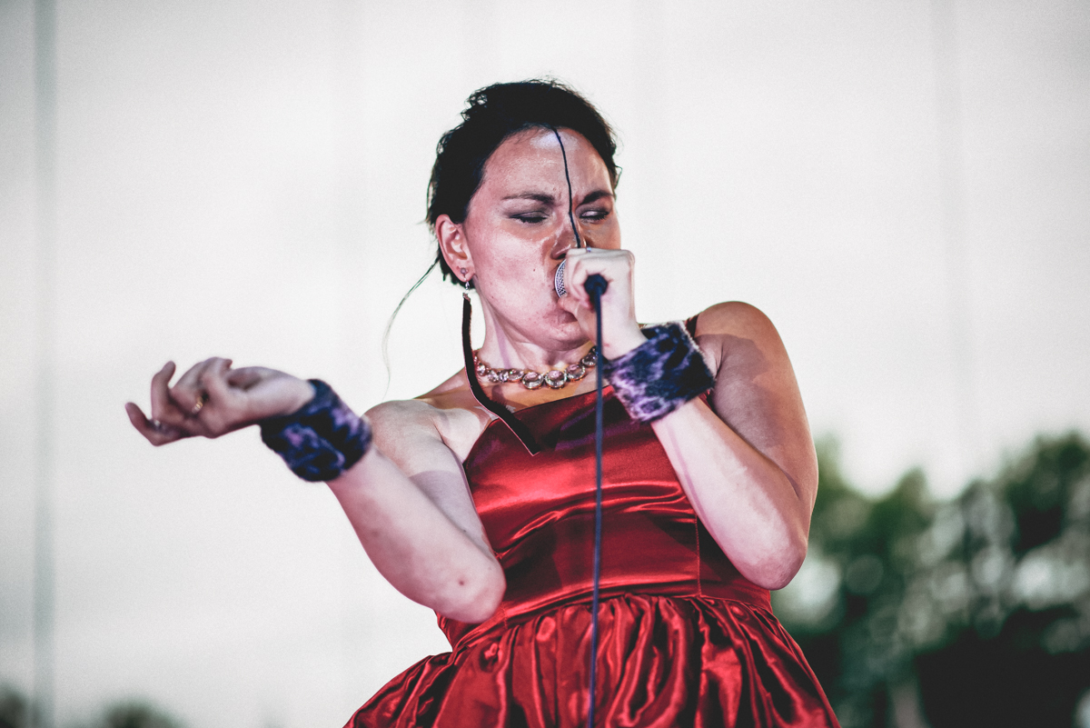 Interstellar Rodeo, Edmonton, Canada Tanya Tagaq performing at the 2015 Interstellar Rodeo in Edmonton, Canada